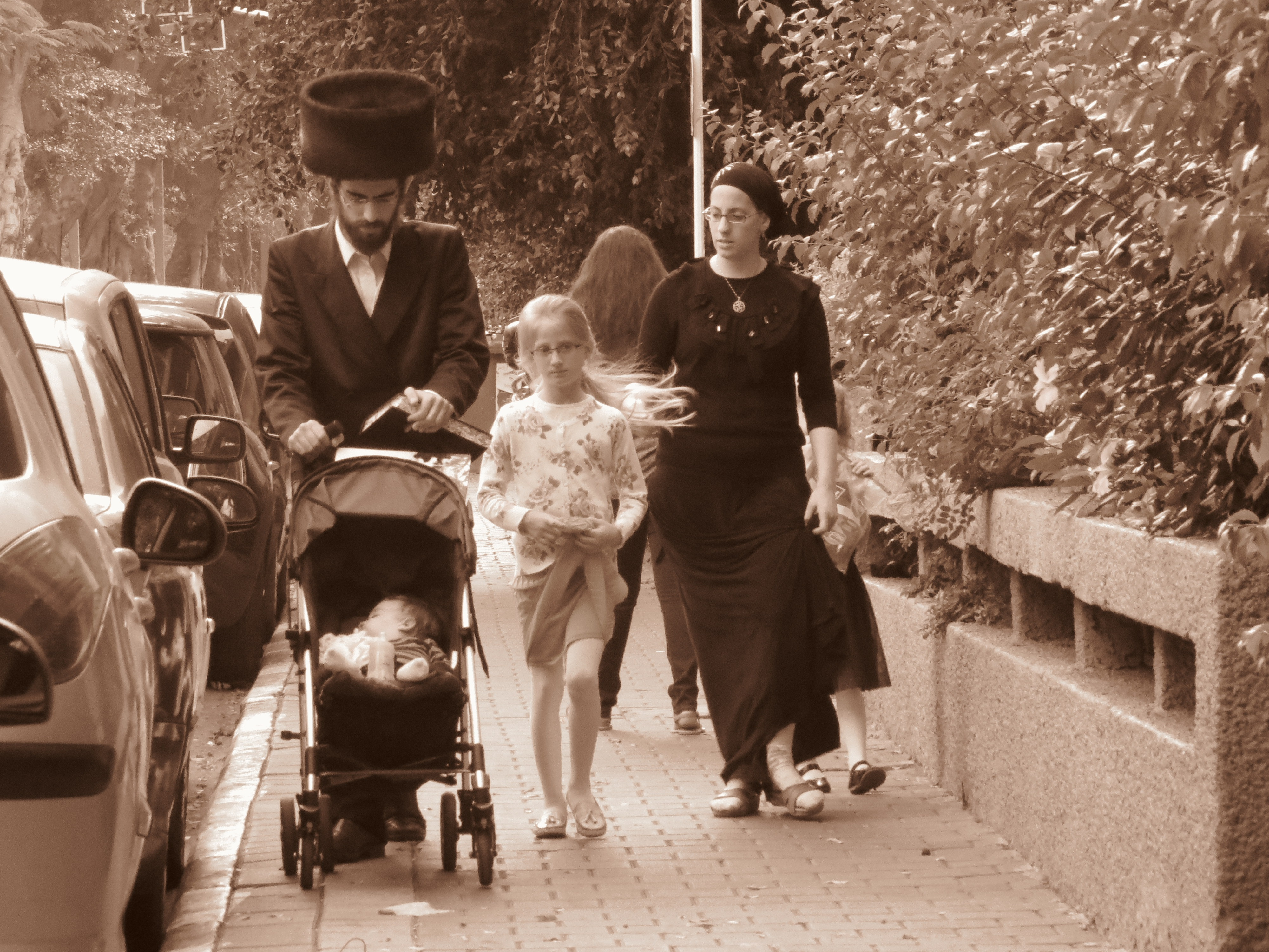 Haredi Jewish family on a walk in Tel Aviv-Yafo in typical clothing (the husband wearing Rekel and Shtreimel, his wife's hair is covered by a Tichel